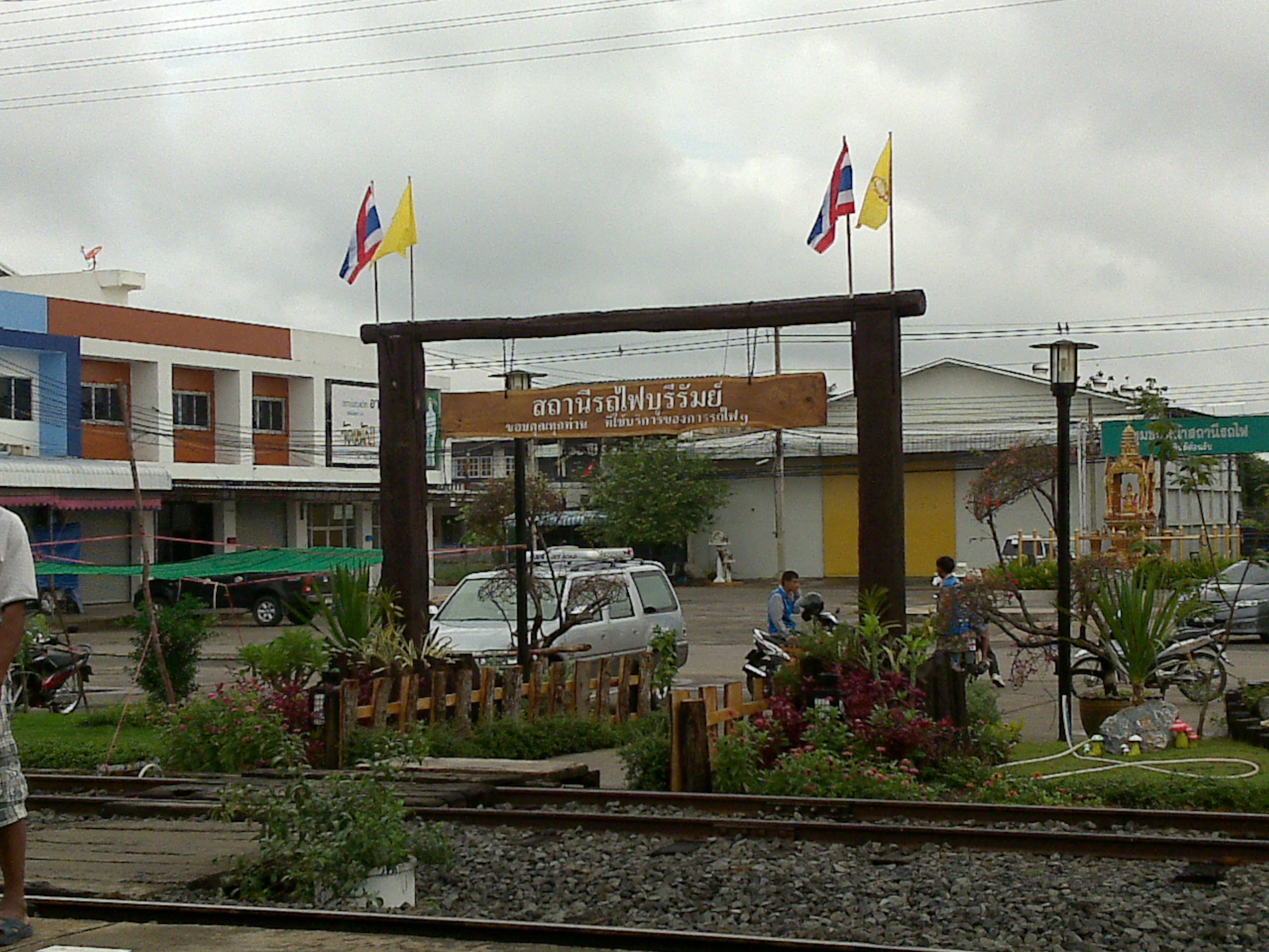 Buriram Station sign